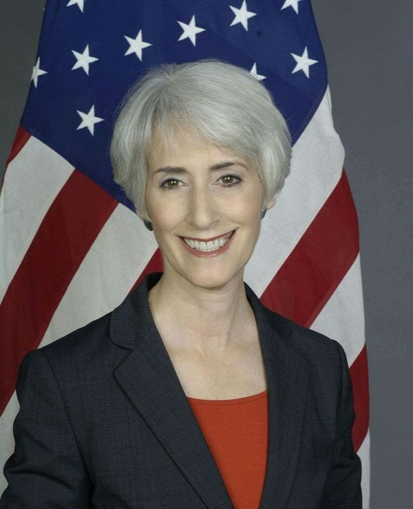 Wendy R. Sherman